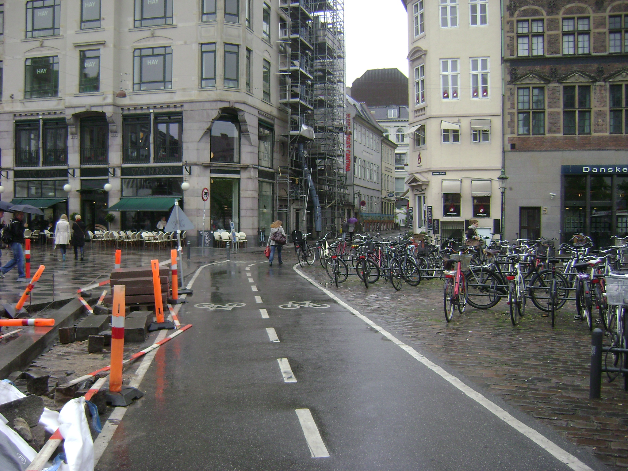 Denmark. Capital Region. Copenhagen